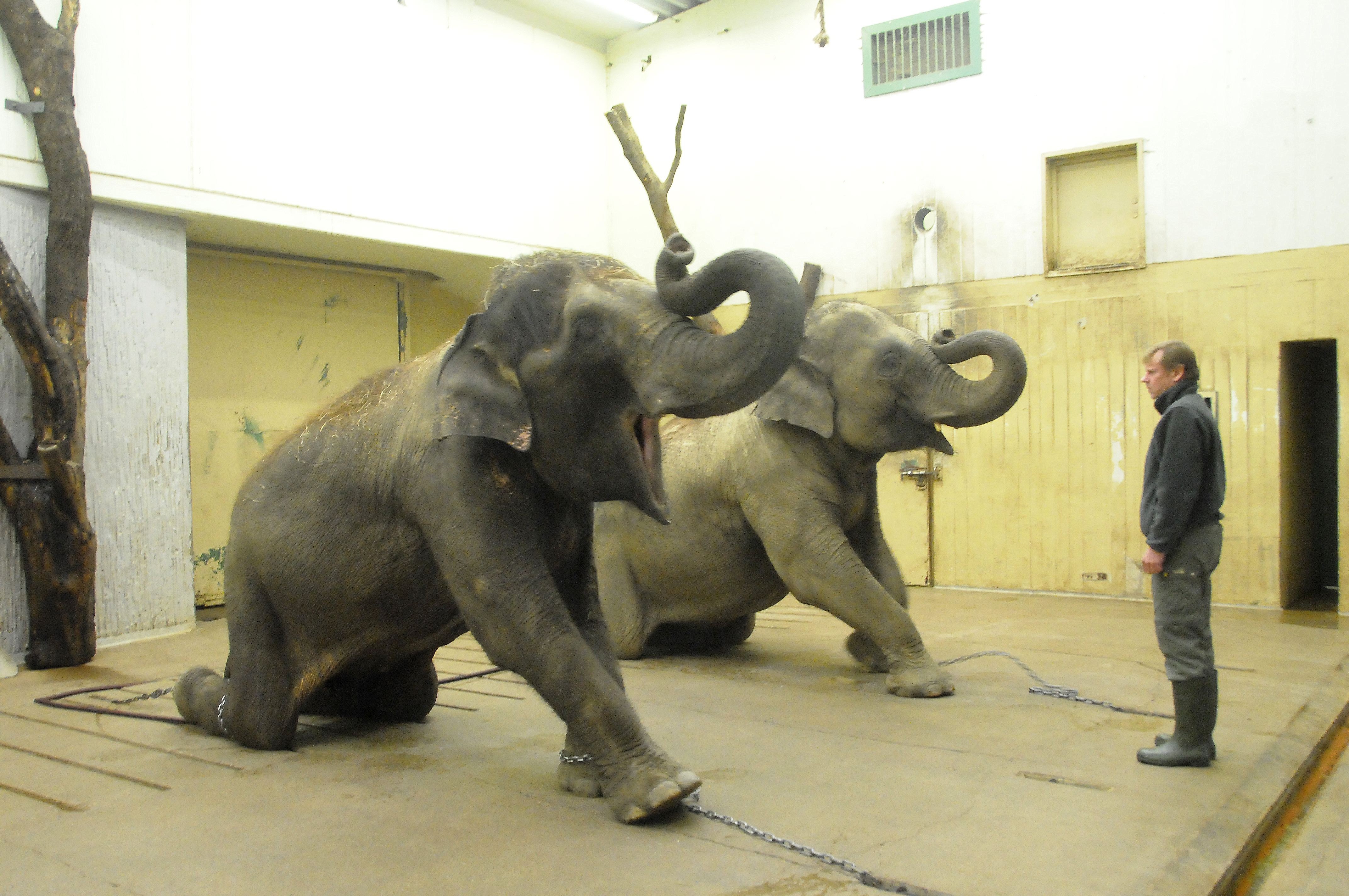 King Carl XVI Gustaf of Swedens two elephants Saonoi and Bua, with elephant trainer Dan Koehl, Kolmarden Zoo, 2008